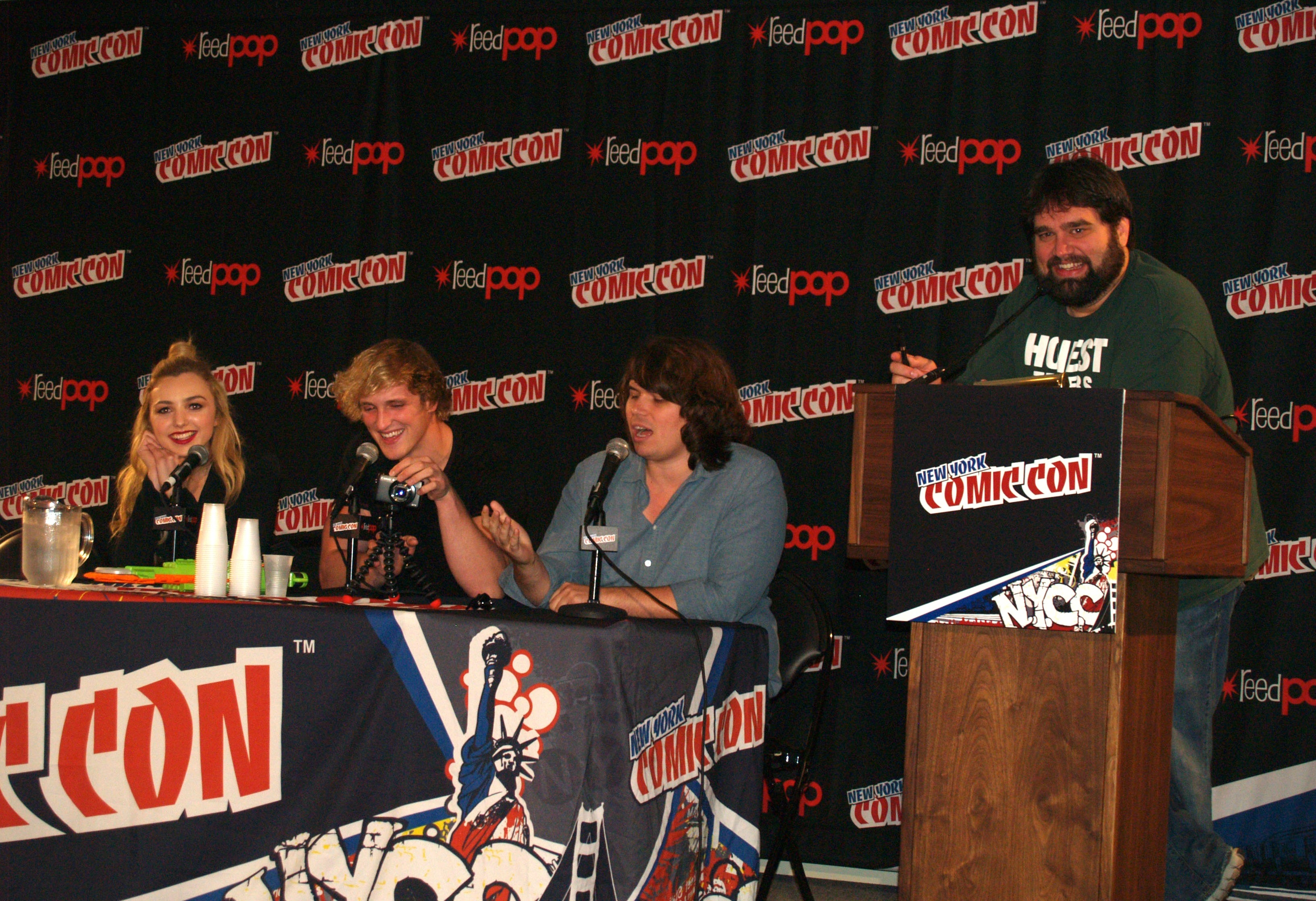 Panel discussion devoted to the 2016 film The Thinning at the Jacob K. Javits Convention Center in Manhattan, on Saturday October 8, 2016, Day 3 of the 2016 New York Comic Con. From left to right are: Actress Peyton List, actor Logan Paul, writer/director Michael Gallagher and serving as moderator at the podium, Andy Signore. This photo was created by Luigi Novi. It is not in the public domain, and use of this file outside of the licensing terms is a copyright violation.